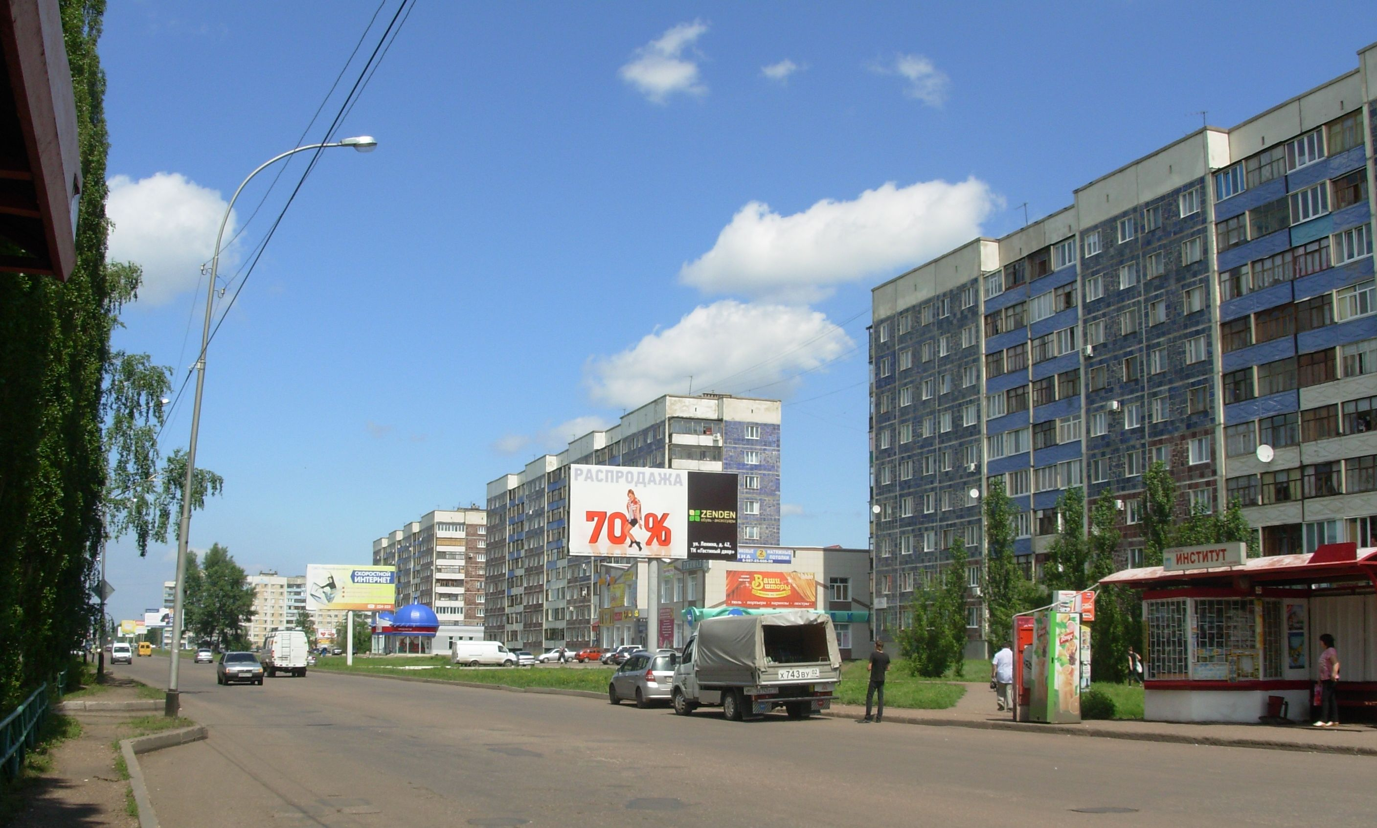 street